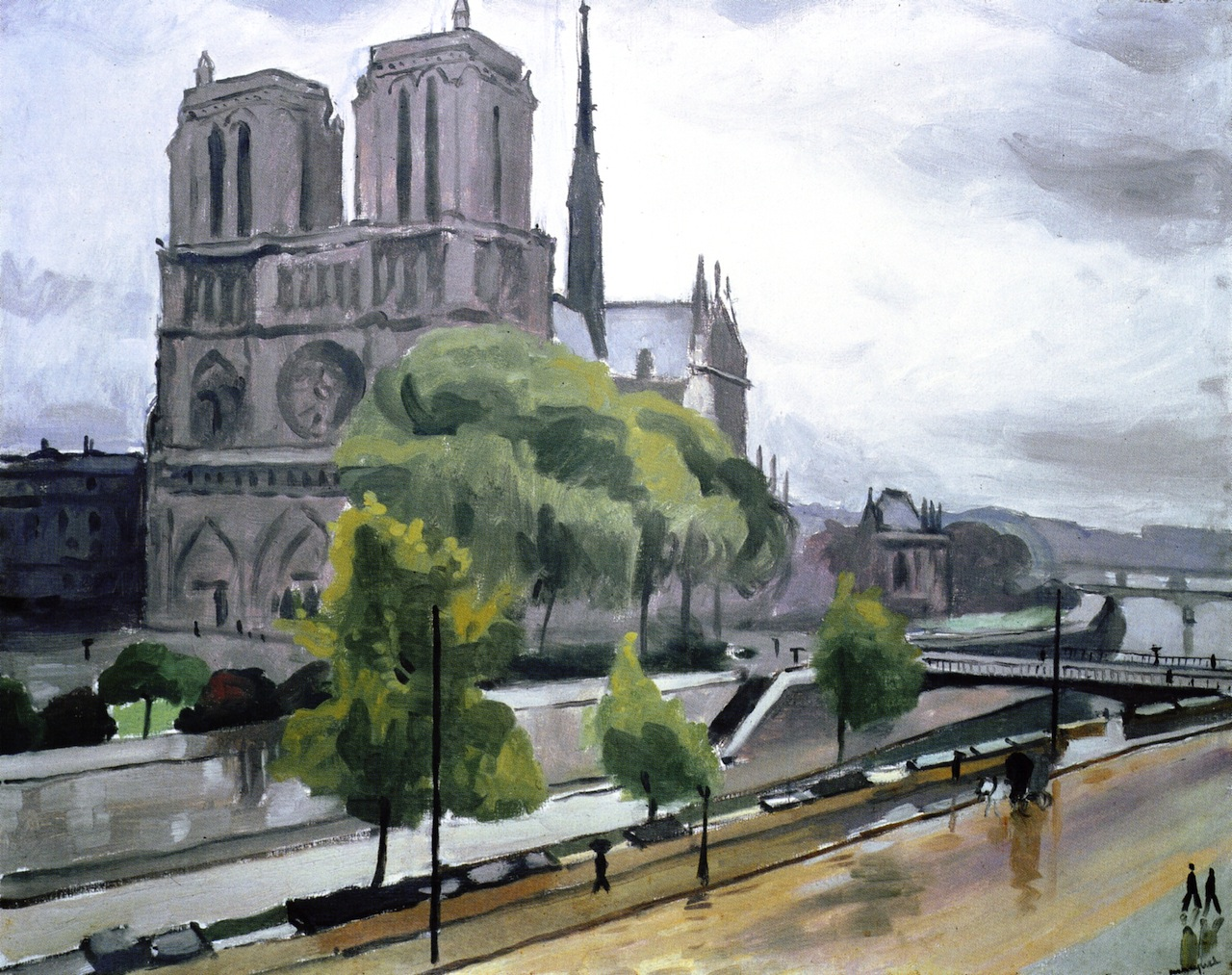 Notre Dame, Grey Weather Albert Marquet